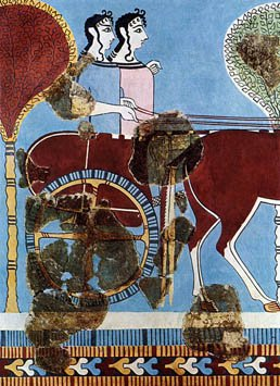 Reconstructed fresco of a chariot transporting two Mycenaean women from Tiryns